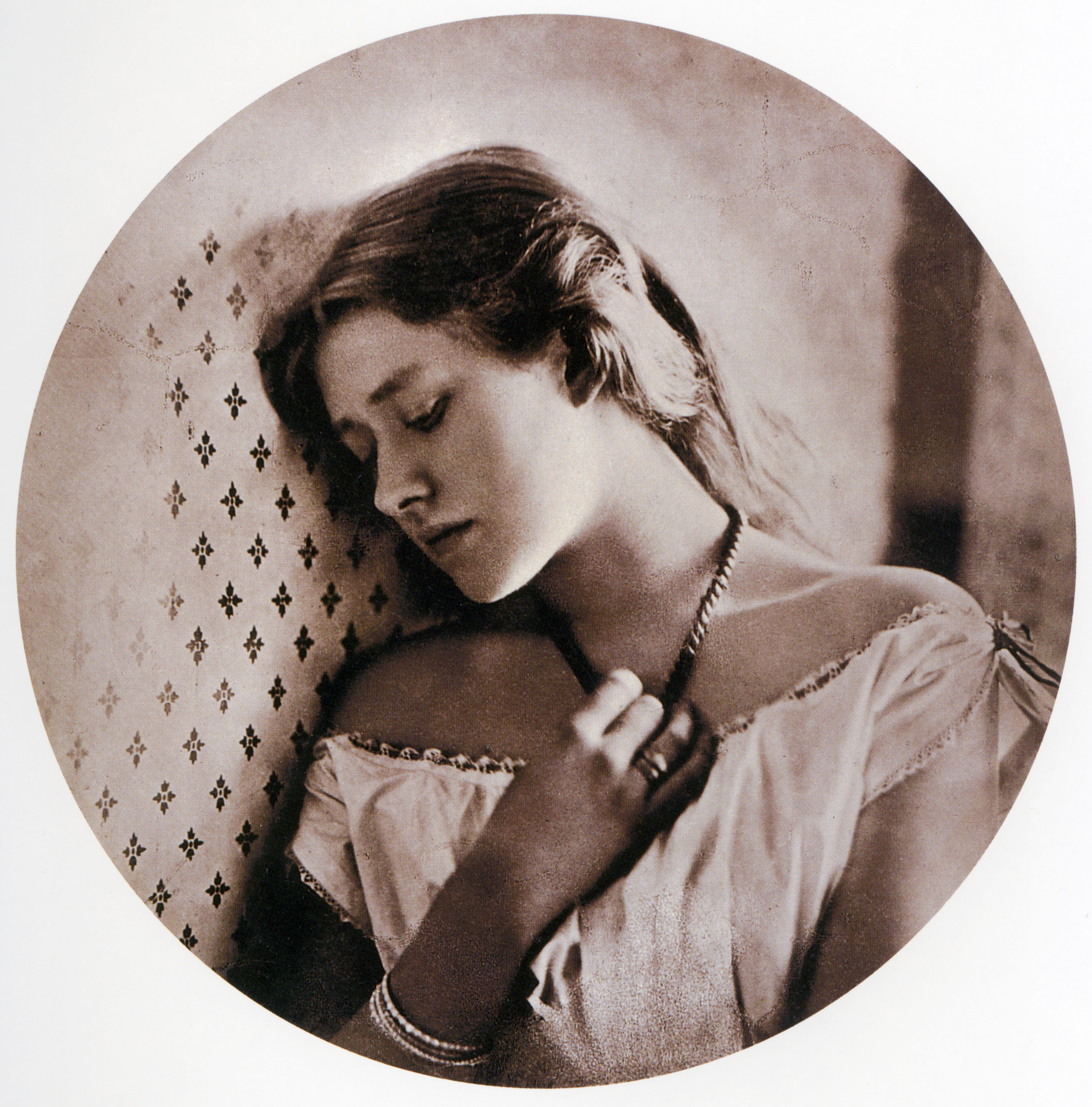 Entitled "Sadness", this photo shows the actress Ellen Terry at the age of 16. Carbon print, 242 x 240mm (9 1/2 x 9 1/2"). Royal Photographic Society. depicted person: Ellen Terry (age: 16)